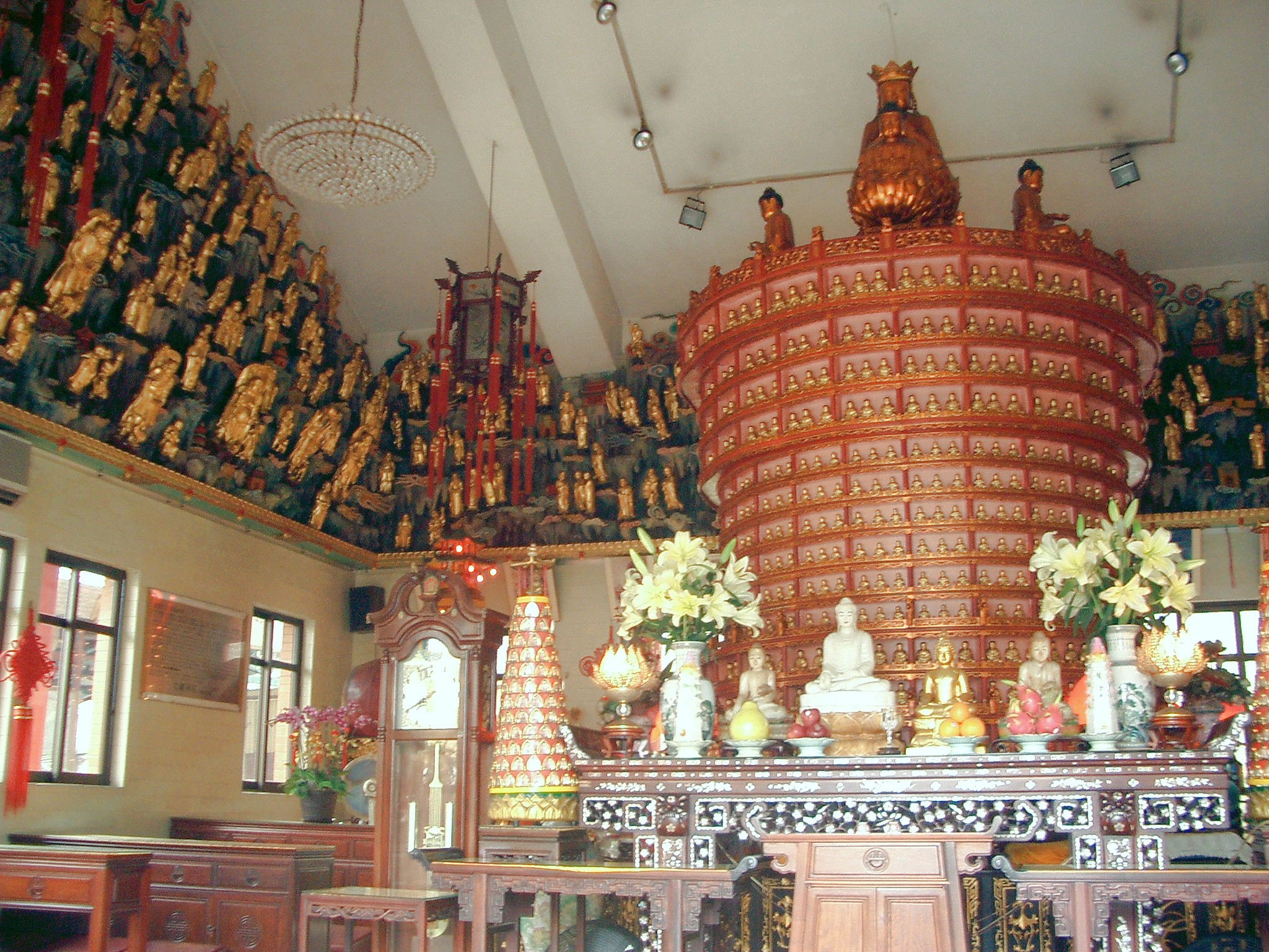 Main Hall of Koon Ngam Ching Yuen, Sha Tin, New Territories, Hong Kong 中文（香港）: 香港，新界，沙田，大圍，古巖淨苑，千佛寶殿。